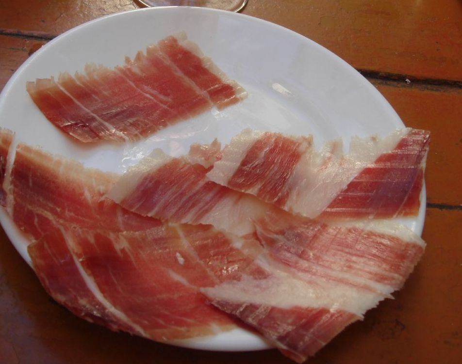 Jamón Ibérico de Bellota served at a Sevillan restaurant, Spain. It is an Iberian (Spanish/Portuguese) delicacy: Ham made from the acorn-fed black Iberian pig. (Upper half of the image is cut from the original)